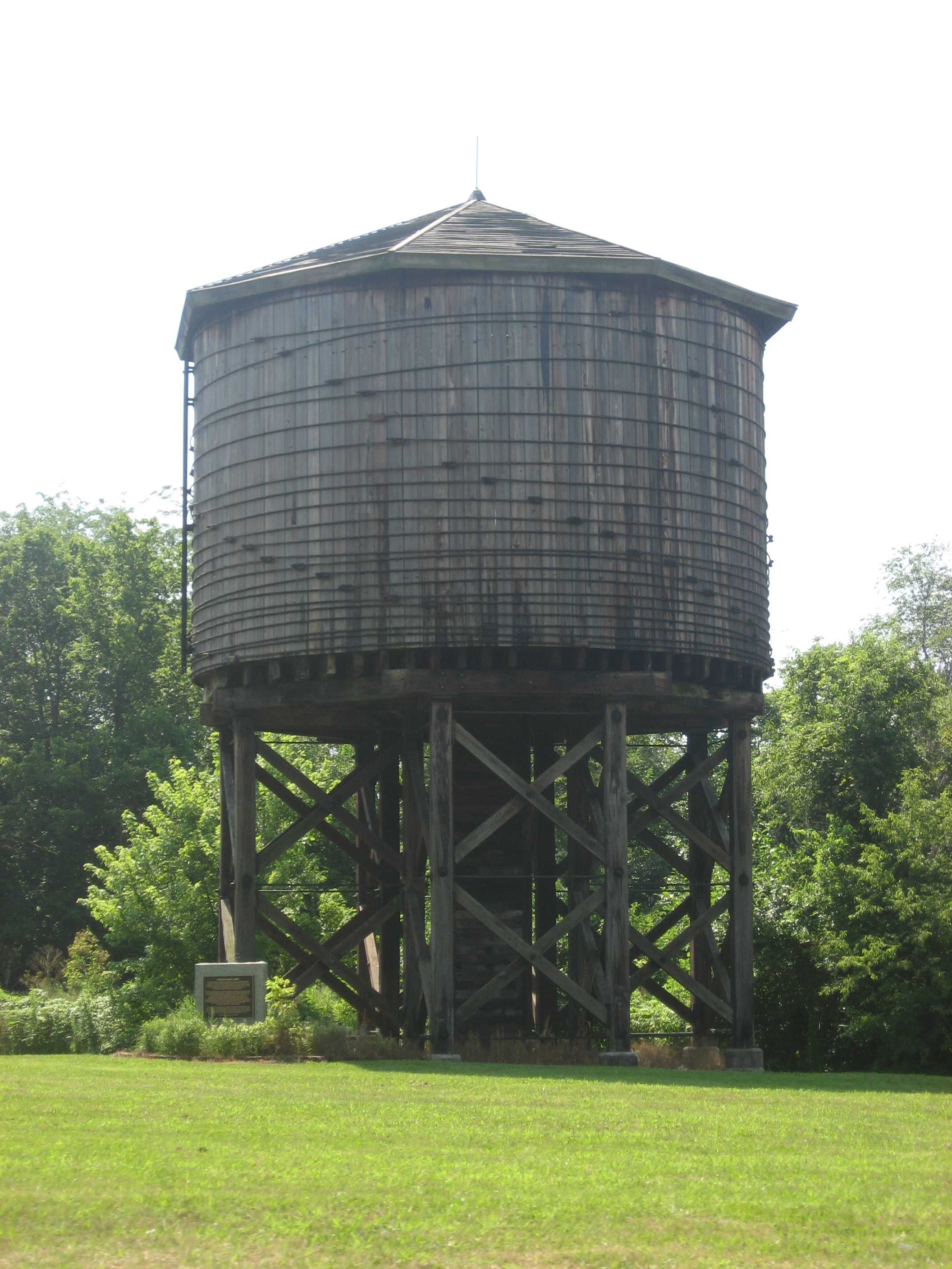 Roadside view of the Illinois Central Railroad Water Tower, located on the southern side of Illinois Route 37 immediately southwest of Kinmundy in Kinmundy Township, Marion County, Illinois, United States. Built in 1885, it is listed on the National Register of Historic Places.